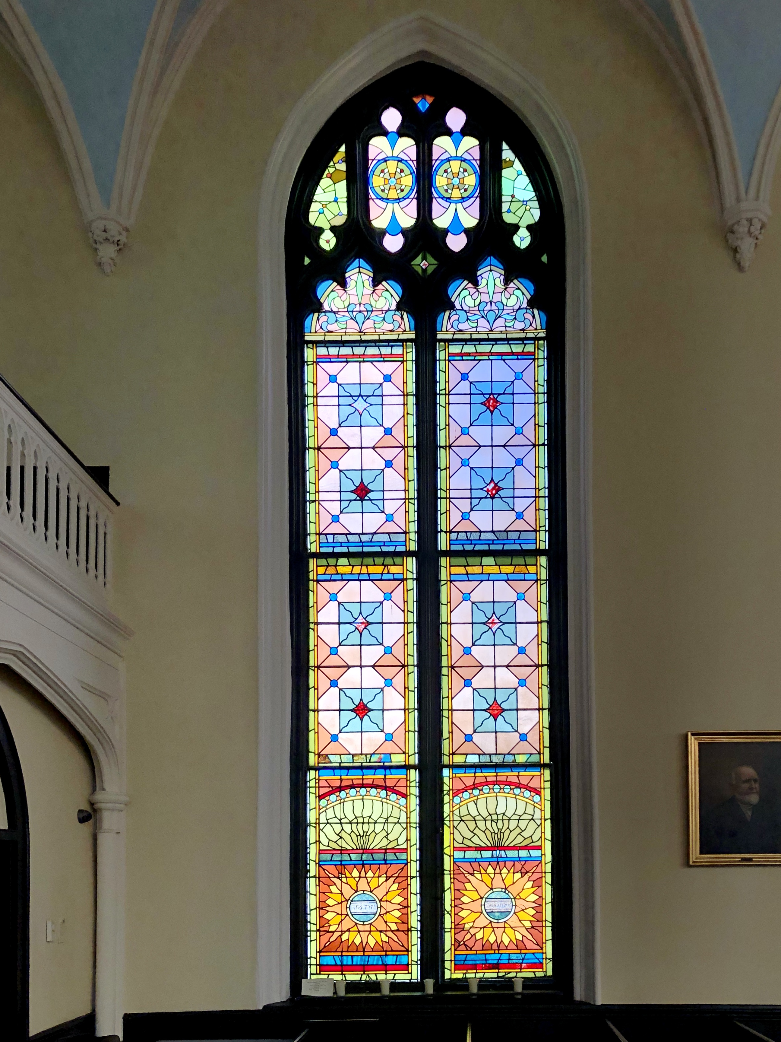 Unitarian Church in Charleston, Harleston Village, Charleston, SC